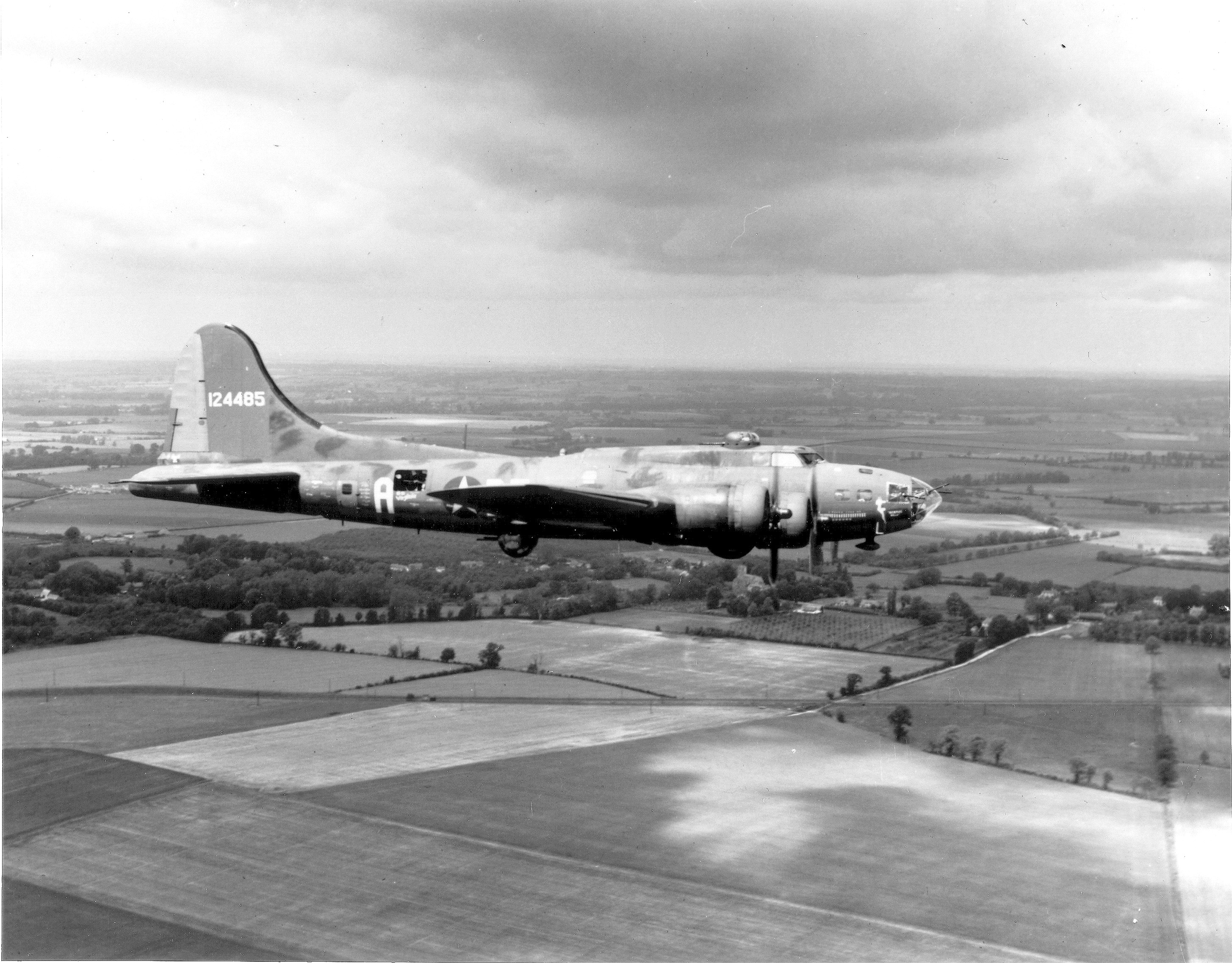 The B-17 Flying Fortress "The Memphis Belle" is shown on her way back to the United States June 9, 1943, after successfully completing 25 missions from an airbase in England.